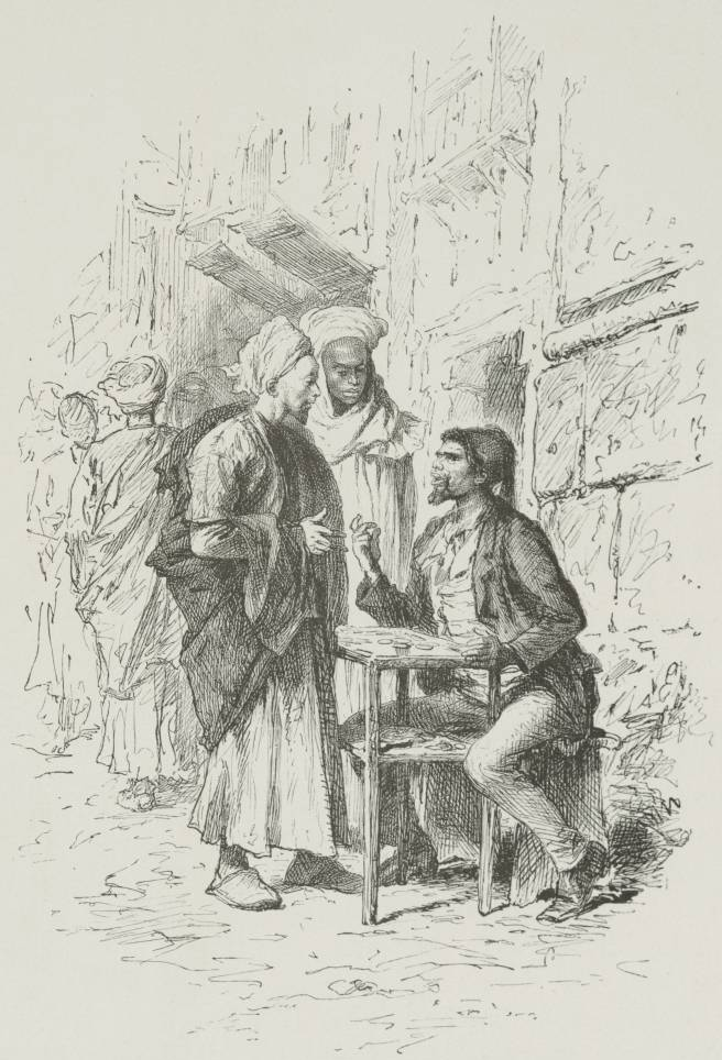 Sarraf, or Money-Changer.A man sitting at a small table in the street, with two men talking to him.